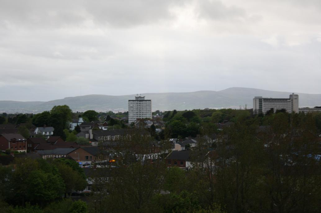 View of Dundonald village from Moat, looking towards Belfast. Cave Hill in the distance